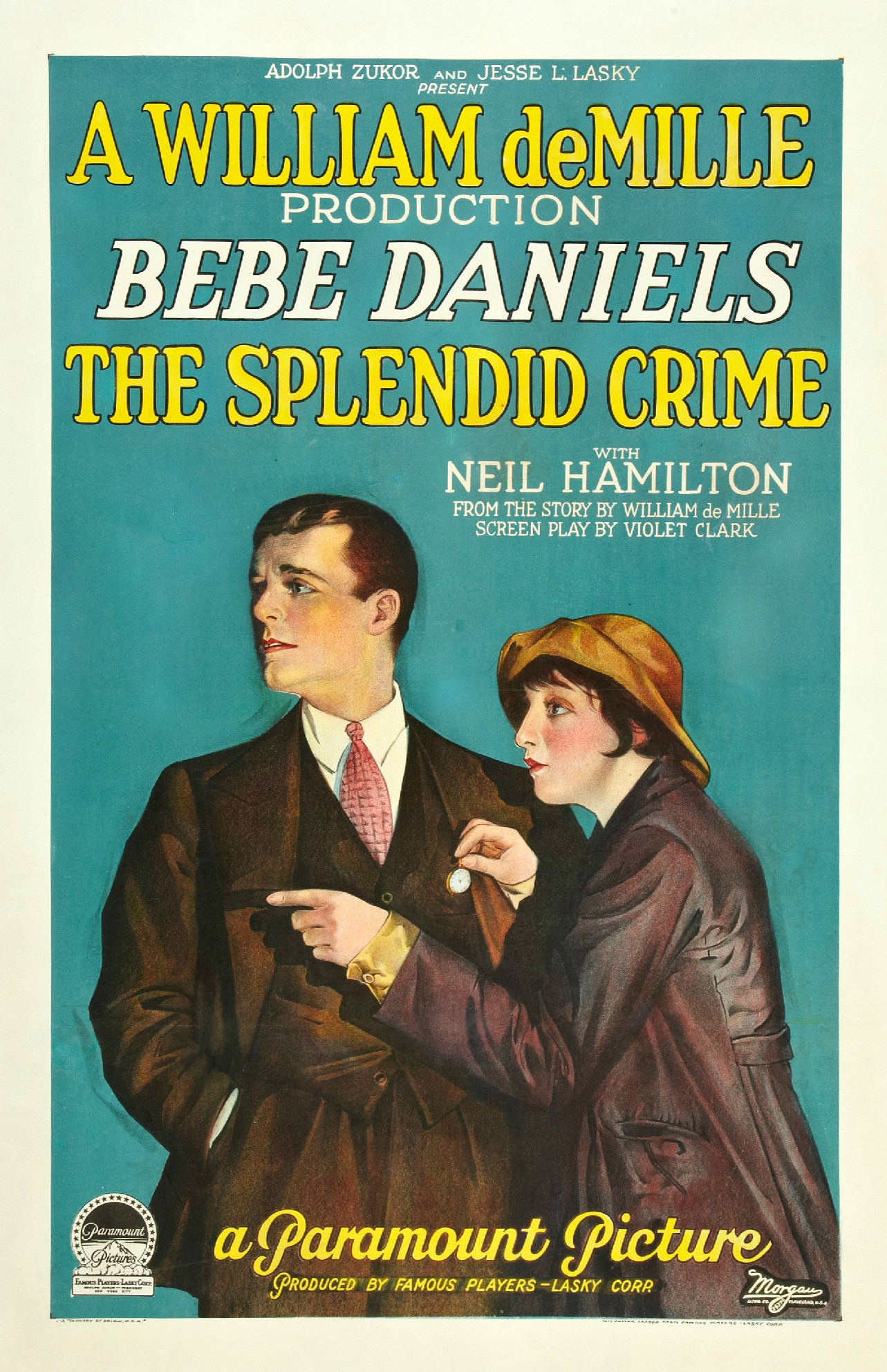 Poster for the 1926 film The Splendid Crime. A search for renewal was done in both film and artwork for they years [1] and 1954. There were no listings for the film title in film. There were no listings in artwork for Paramount, Lasky, Famous Players or Morgan Litho Co (printed the poster). There's no evidence of continuing copyright for the film or material related to it. I am aware that Getty Images offers a copy of the original poster. This is a copy of the original and has had the Paramount Pictures logo and lettering, the Morgan Litho Company logo and the fine print on lower border (which often lists copyright information) removed.